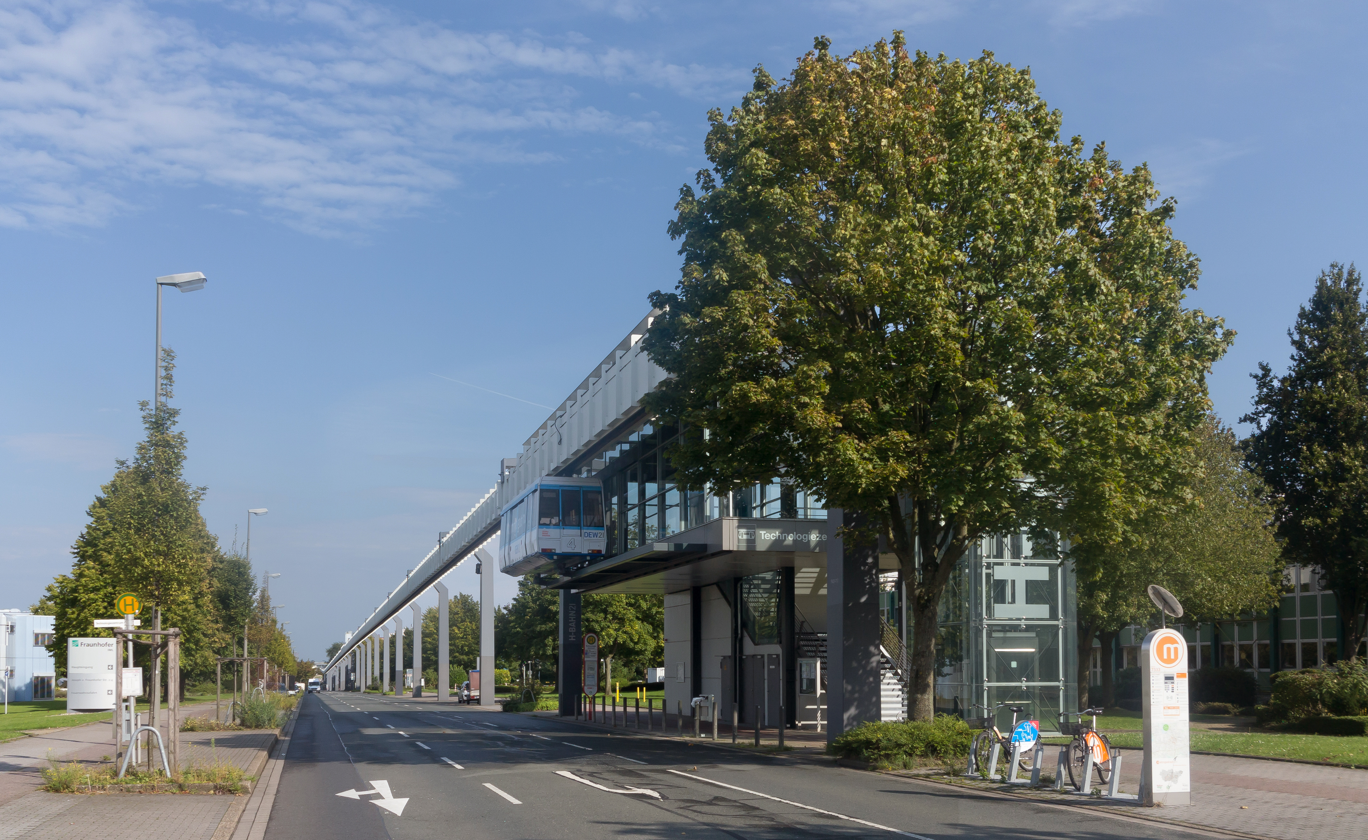 Dortmund, Stop der H-Bahn Technologiezentrum